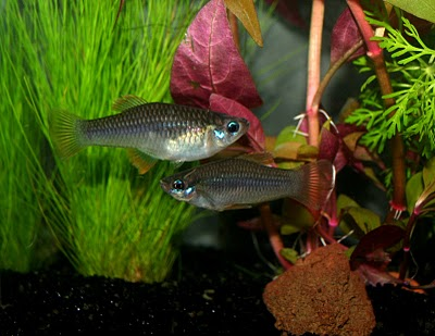 Priapella olmecae, Female and Male